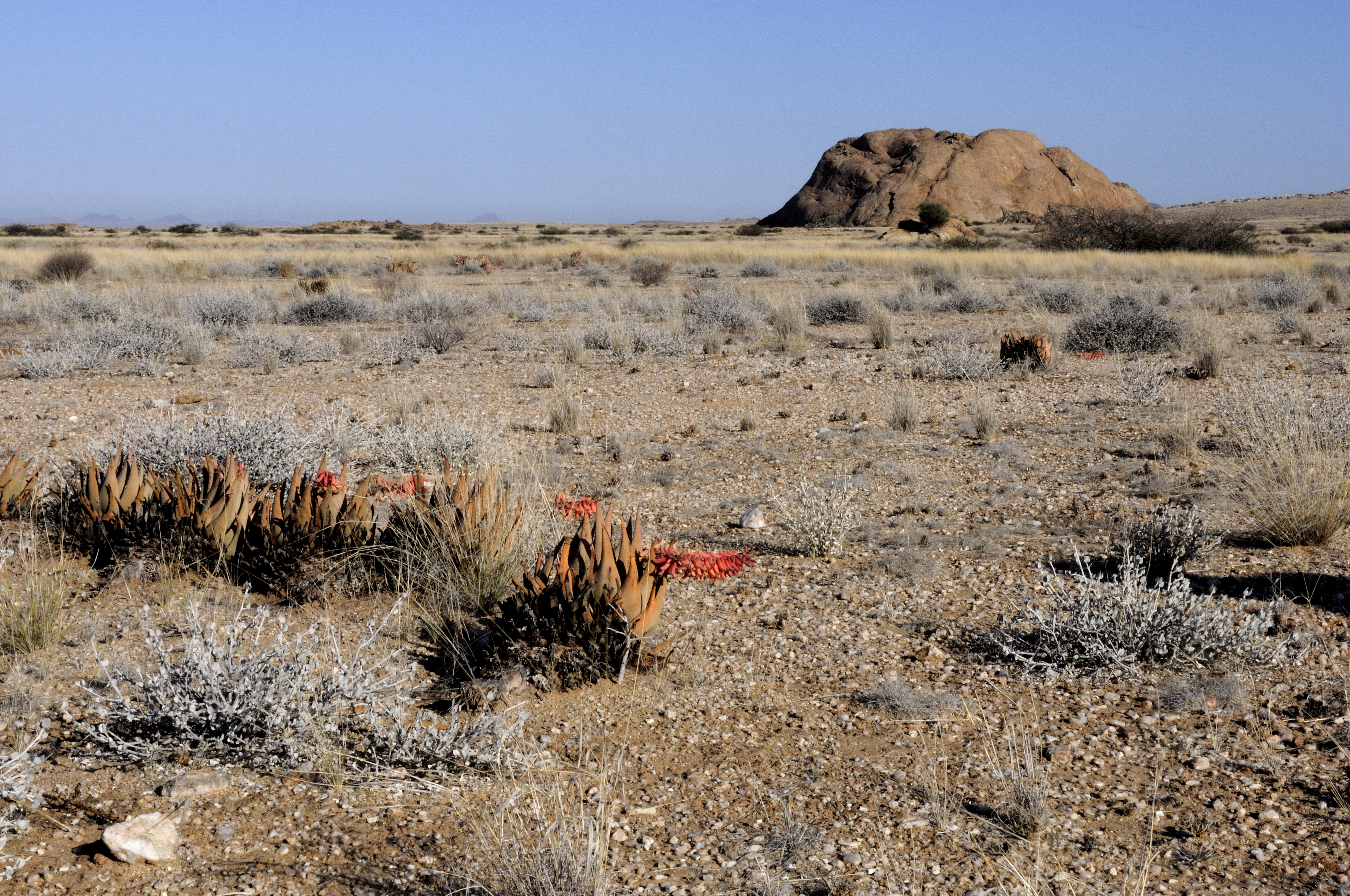 Aloe asperifolia in front of Namib Rock, Brandberg area, Namibia